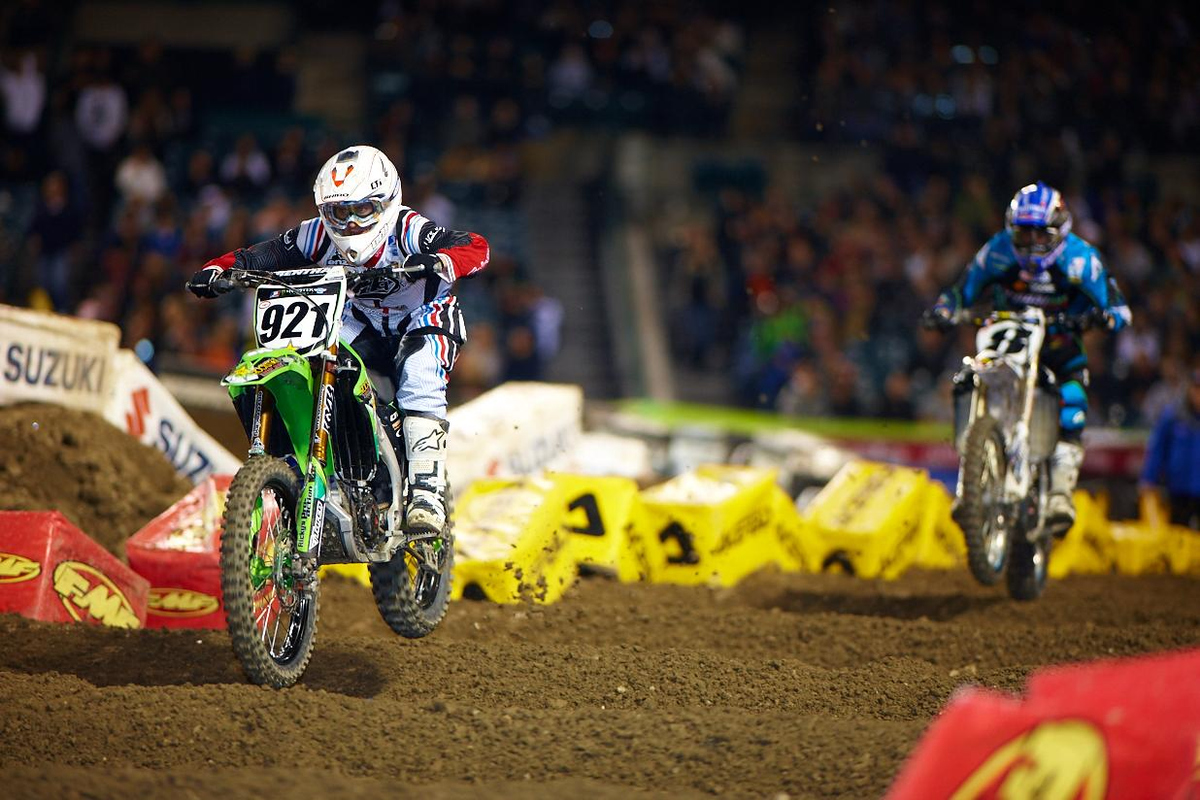 Manu Rivas #921 - AMA Supercross Series 2010